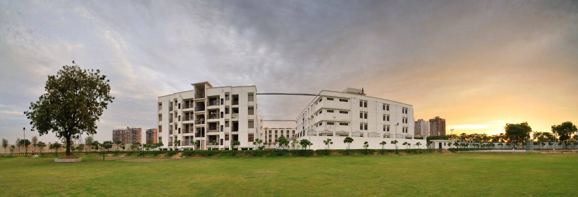 ABESIT Faculty Residences